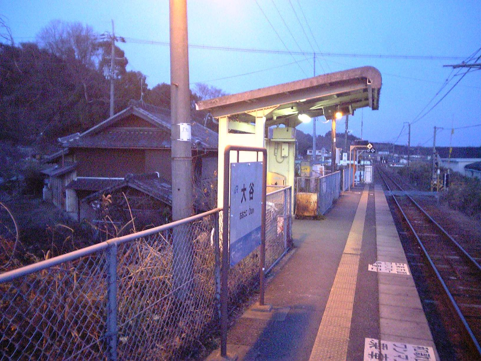 Otani Station on JR West Wakayama Line